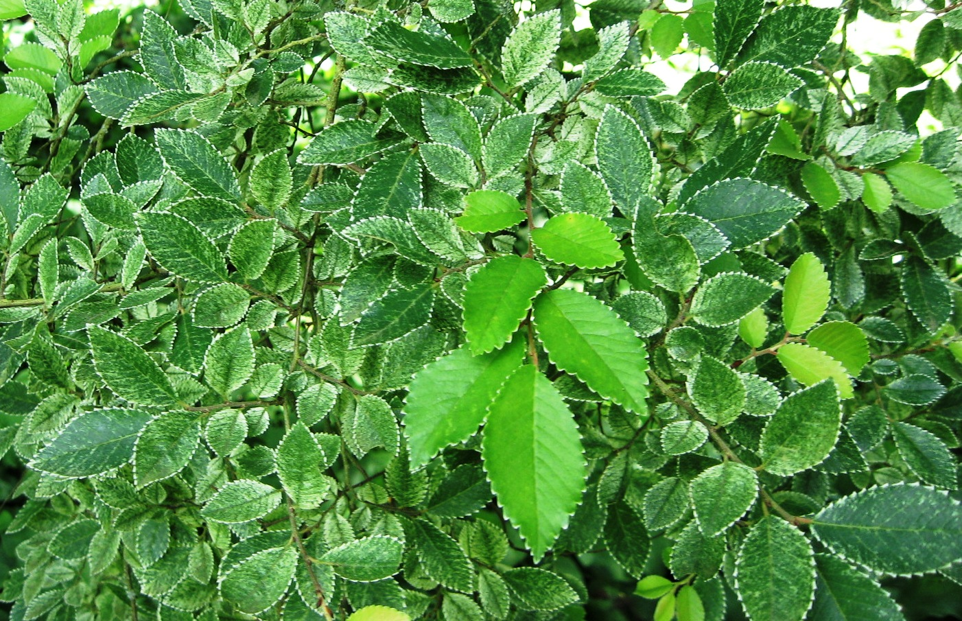 Ulmus parvifolia 'Frosty' leaves; Photo by R. Nijboer